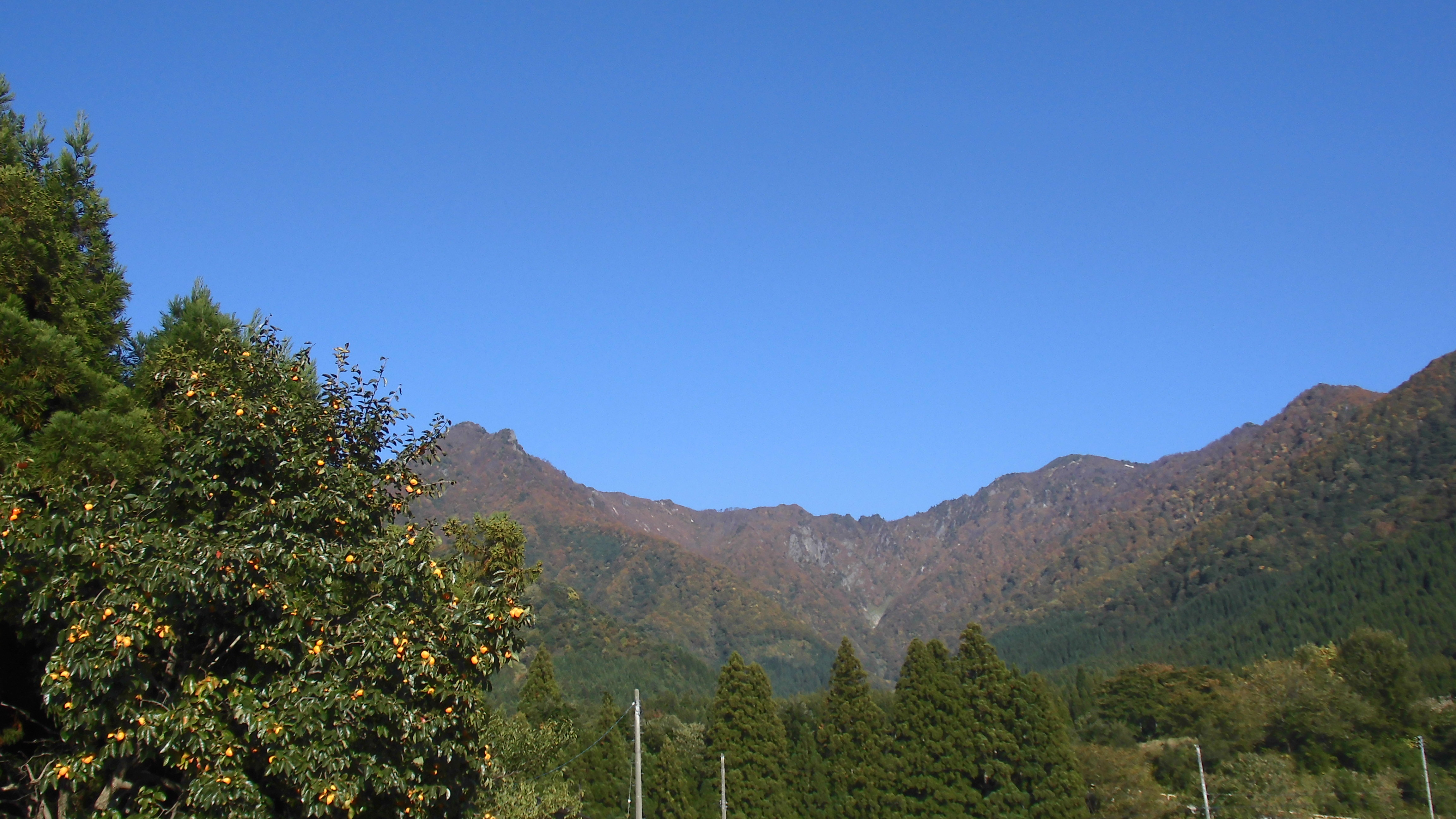 Mount Kinjo (Kinjo-san) in coloured leaves